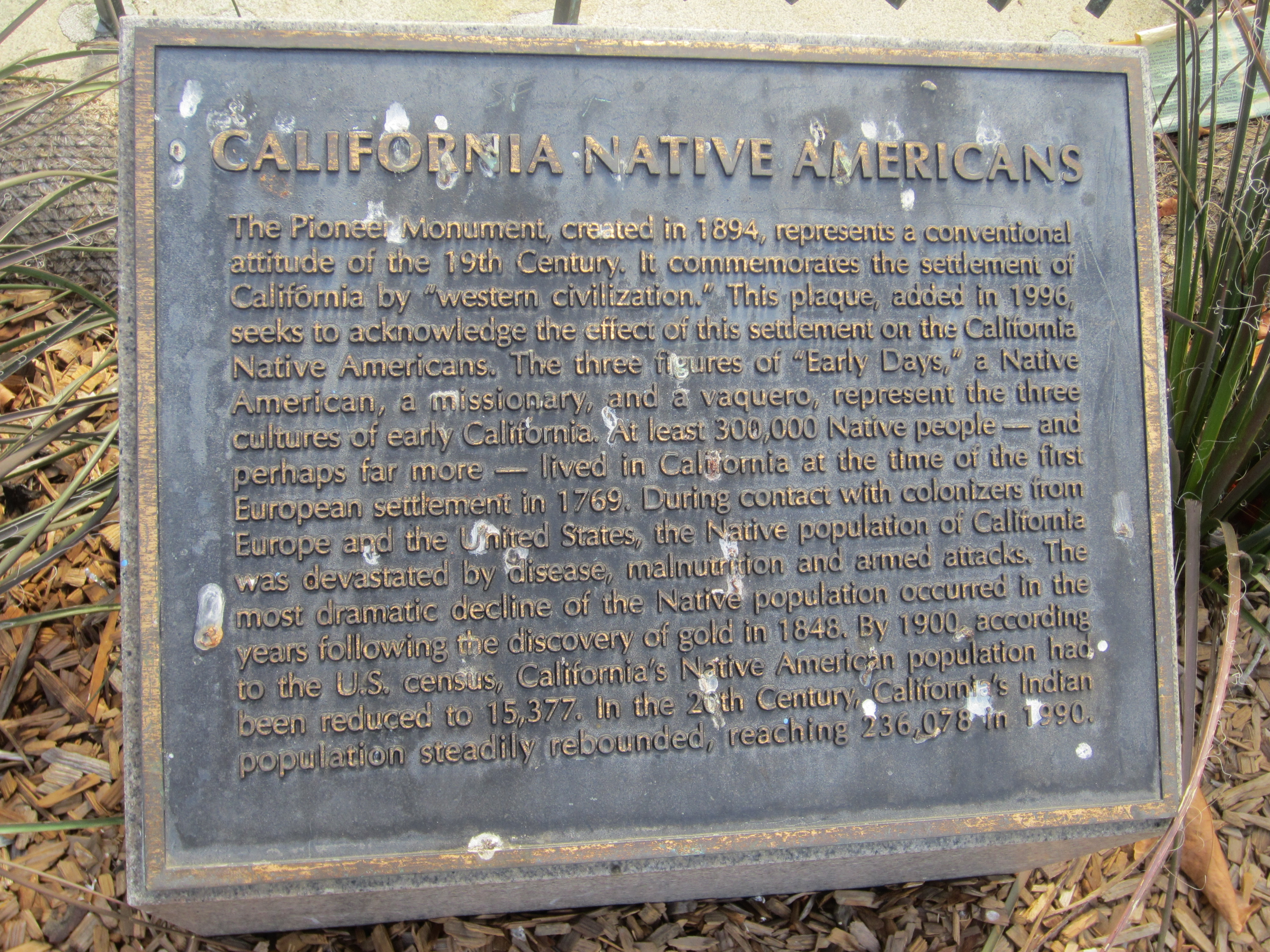 Pioneer Monument, San Francisco (2013)